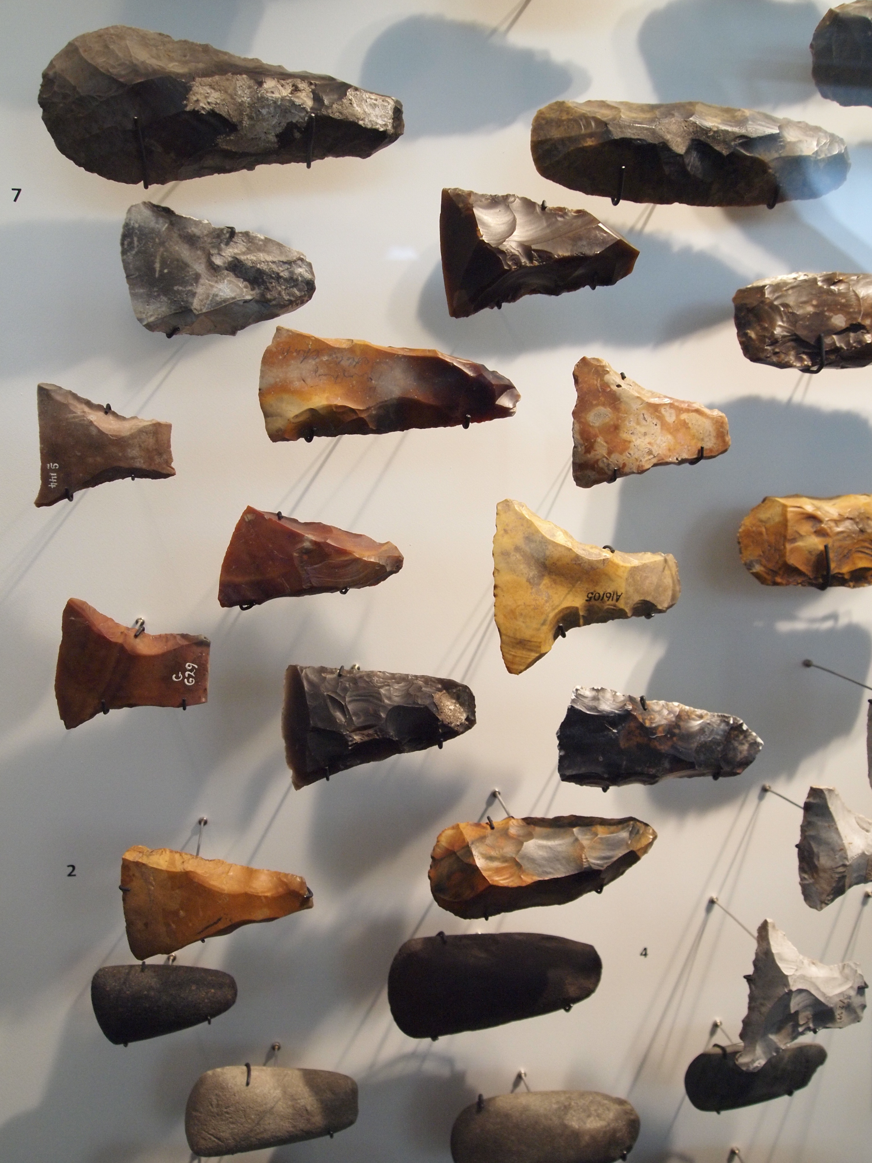 Pictures taken at the National Museet - The National Museum - Copenhagen Denmark during the Wikipedia Loves Nationalmuseet